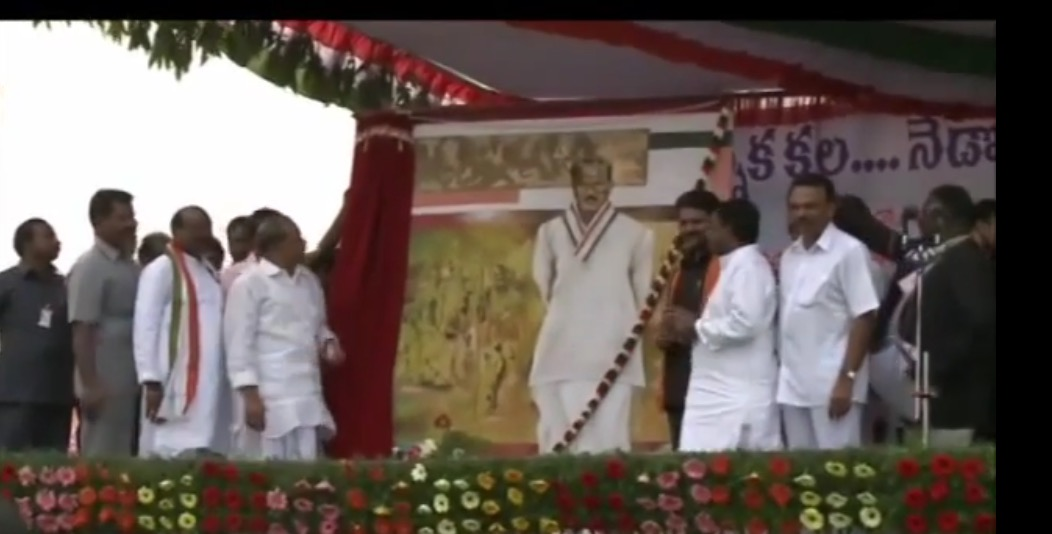 Dr. Y.S. Rajasekhara Reddy naming Gundlakamma Project for the memorial of former Cabinet Minister of Kandula Obul Reddy.